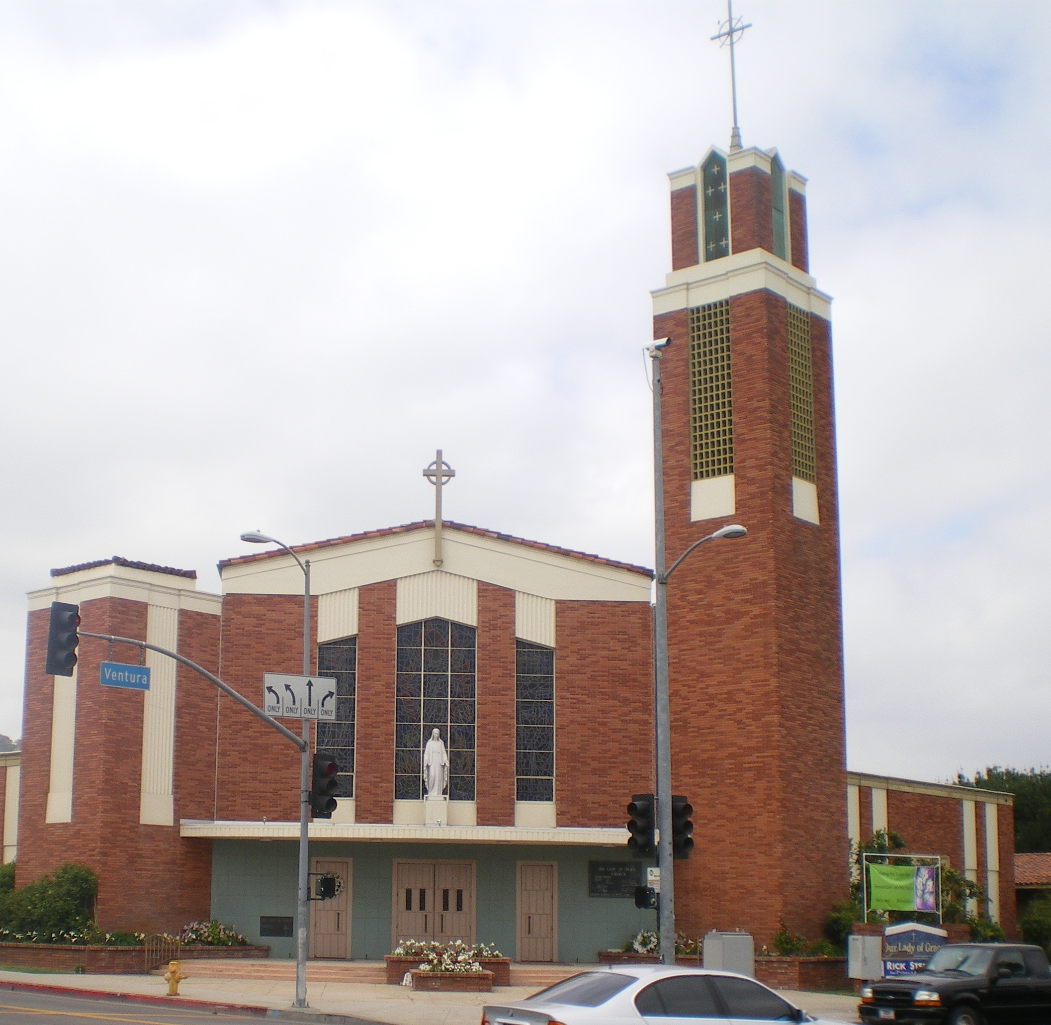 Our Lady of Grace Catholic Church on White Oak in the Encino neighborhood in Los Angeles' San Fernando Valley region.